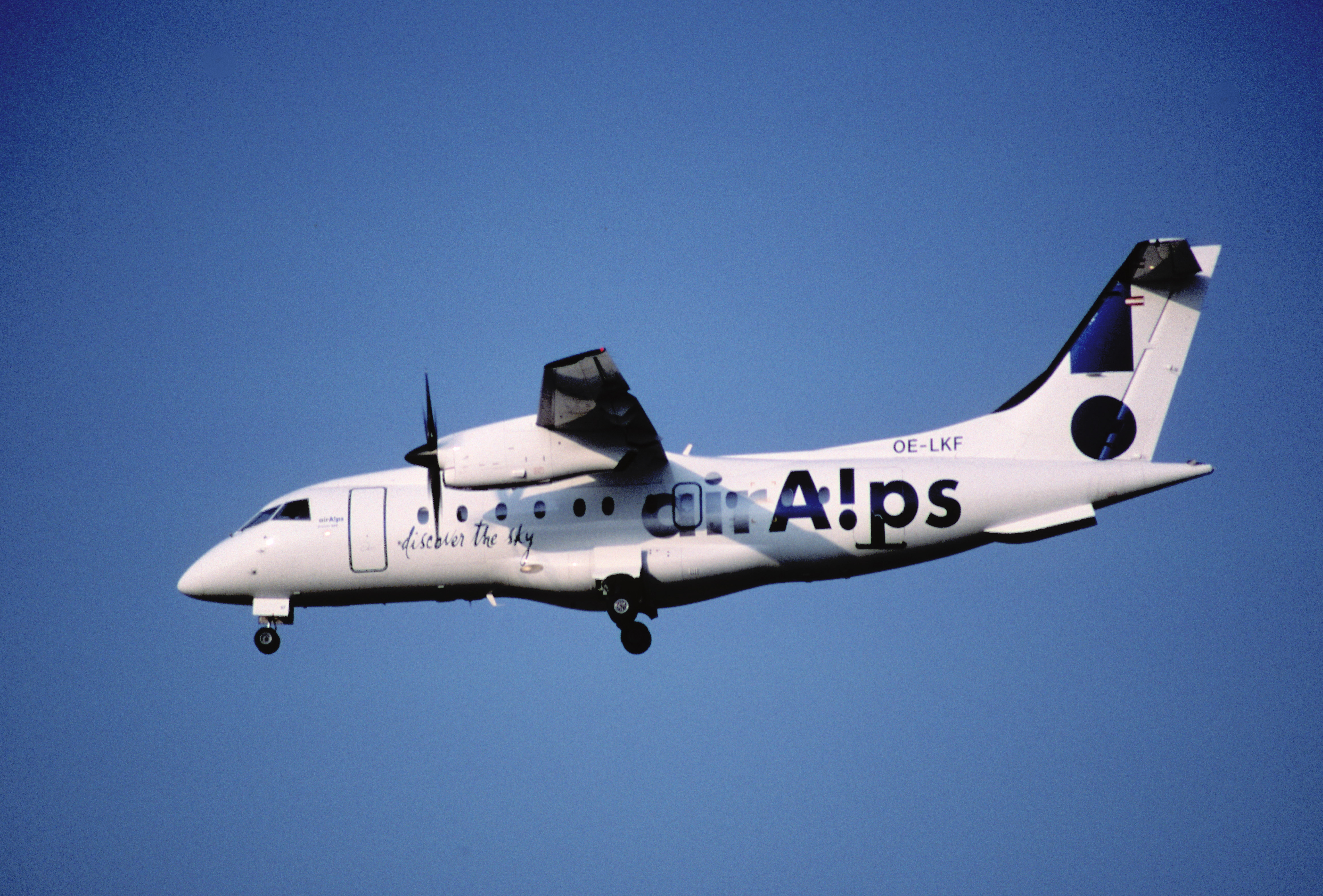 242ar - Air Alps Aviation Dornier 328-110; OE-LKF@ZRH;17.06.2003